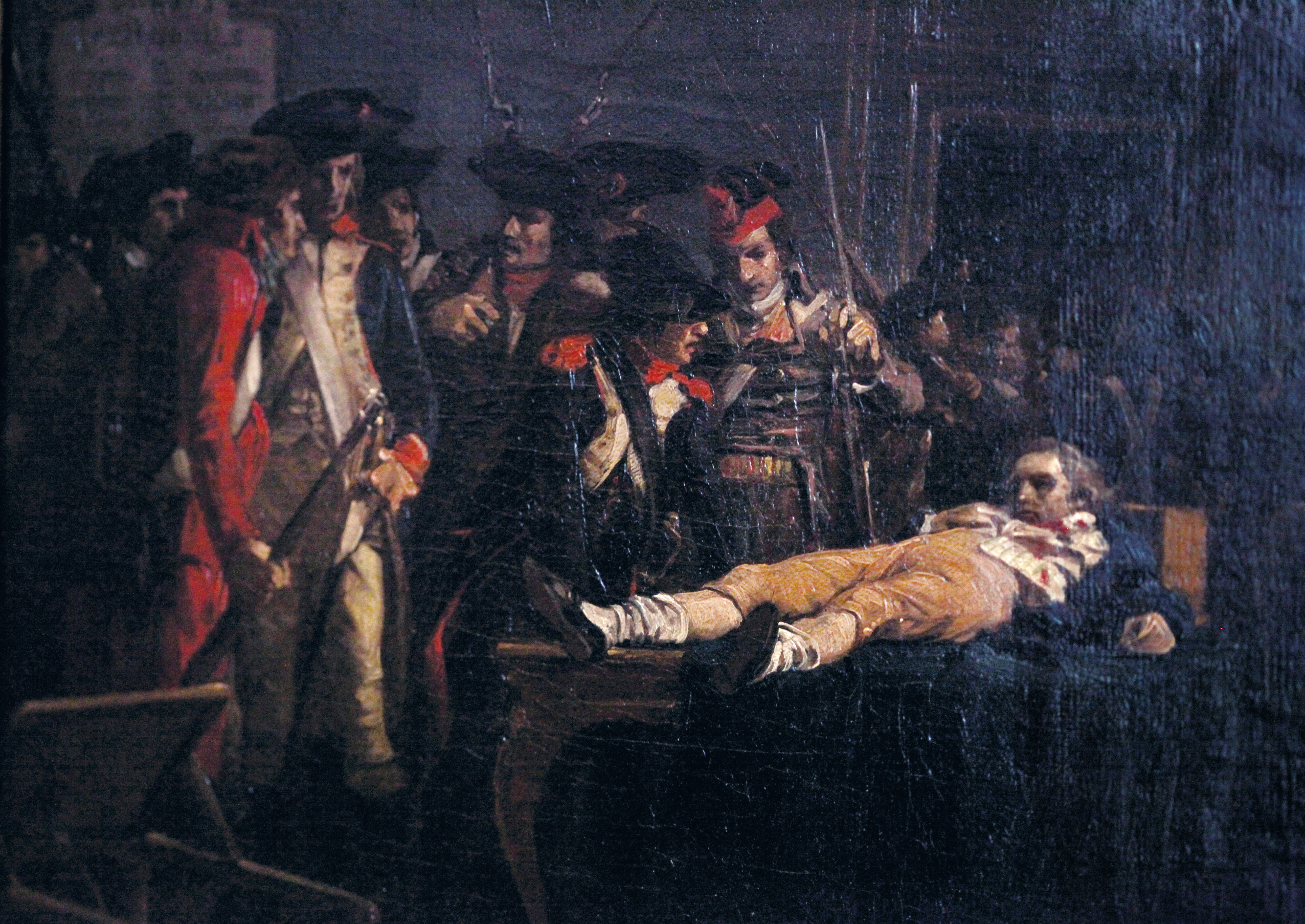 derivative work: LaBedoyere